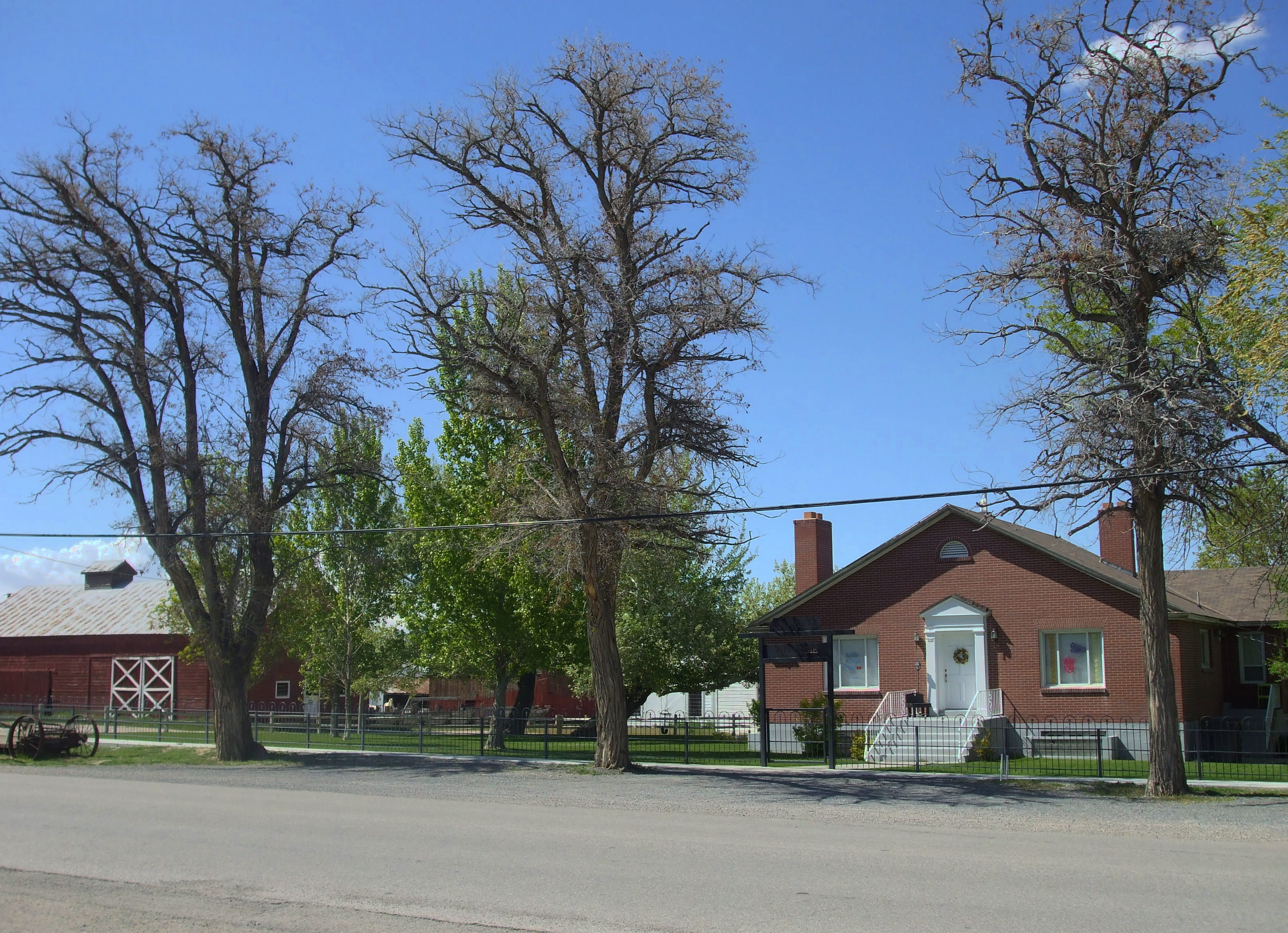 The Anderson-Clark Farmstead, a historic farm in Grantsville, Utah, United States.